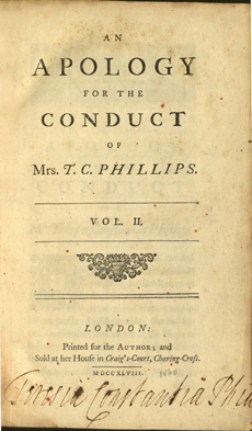 Teresia Constantia Phillips (2 January, 1709 – 2 February, 1765) was a British courtesan who published this scandalous autobiography